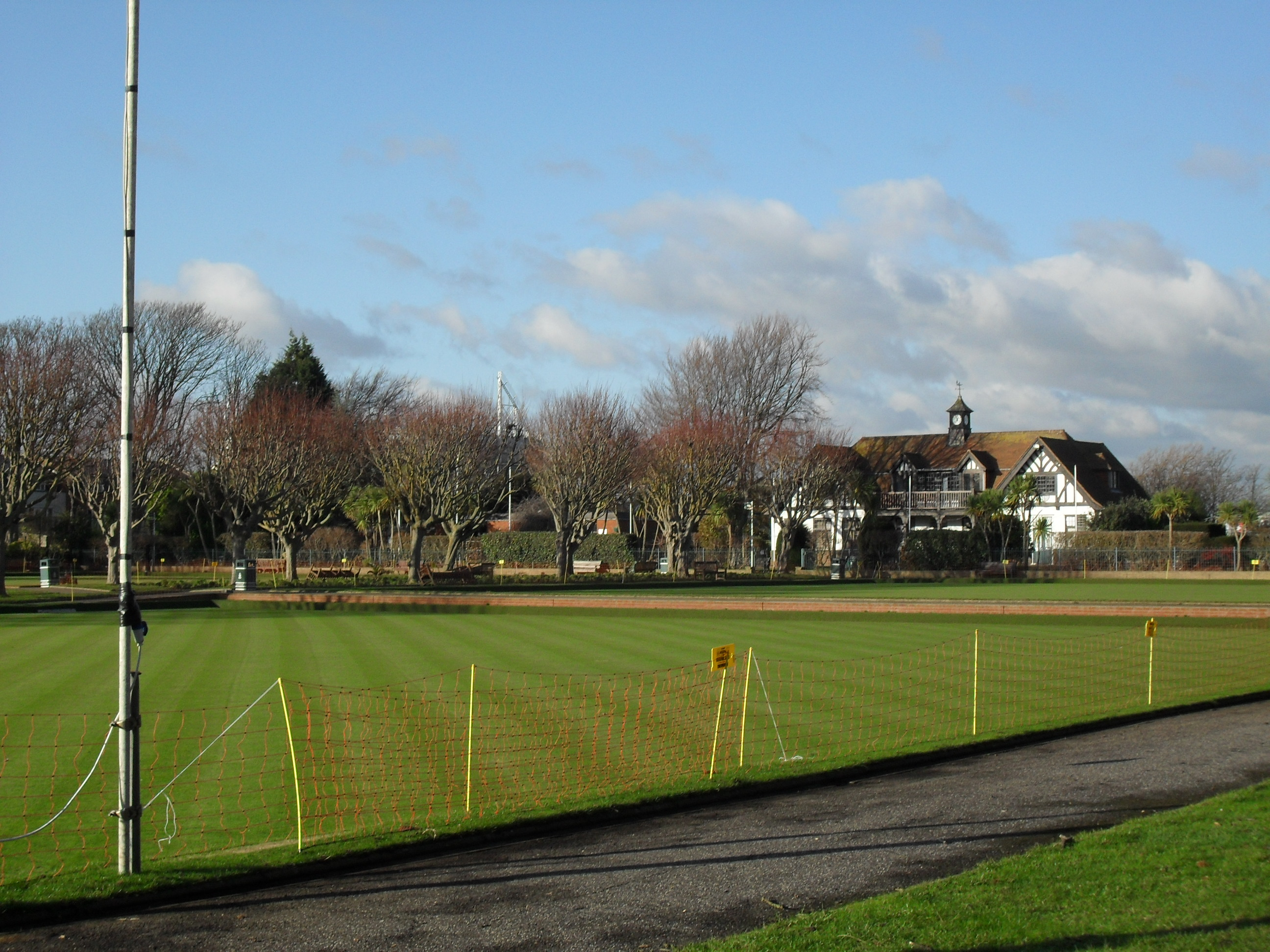 Beach House Park, Lyndhurst Road/Brighton Road, Worthing, West Sussex, England. Opened to the public in 1924. This view looks towards the bowling greens and bowls pavilion.